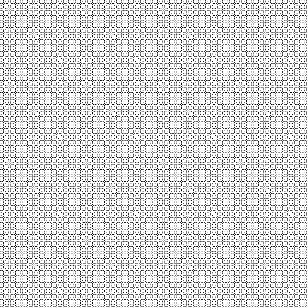 Sierpinski Curve L7